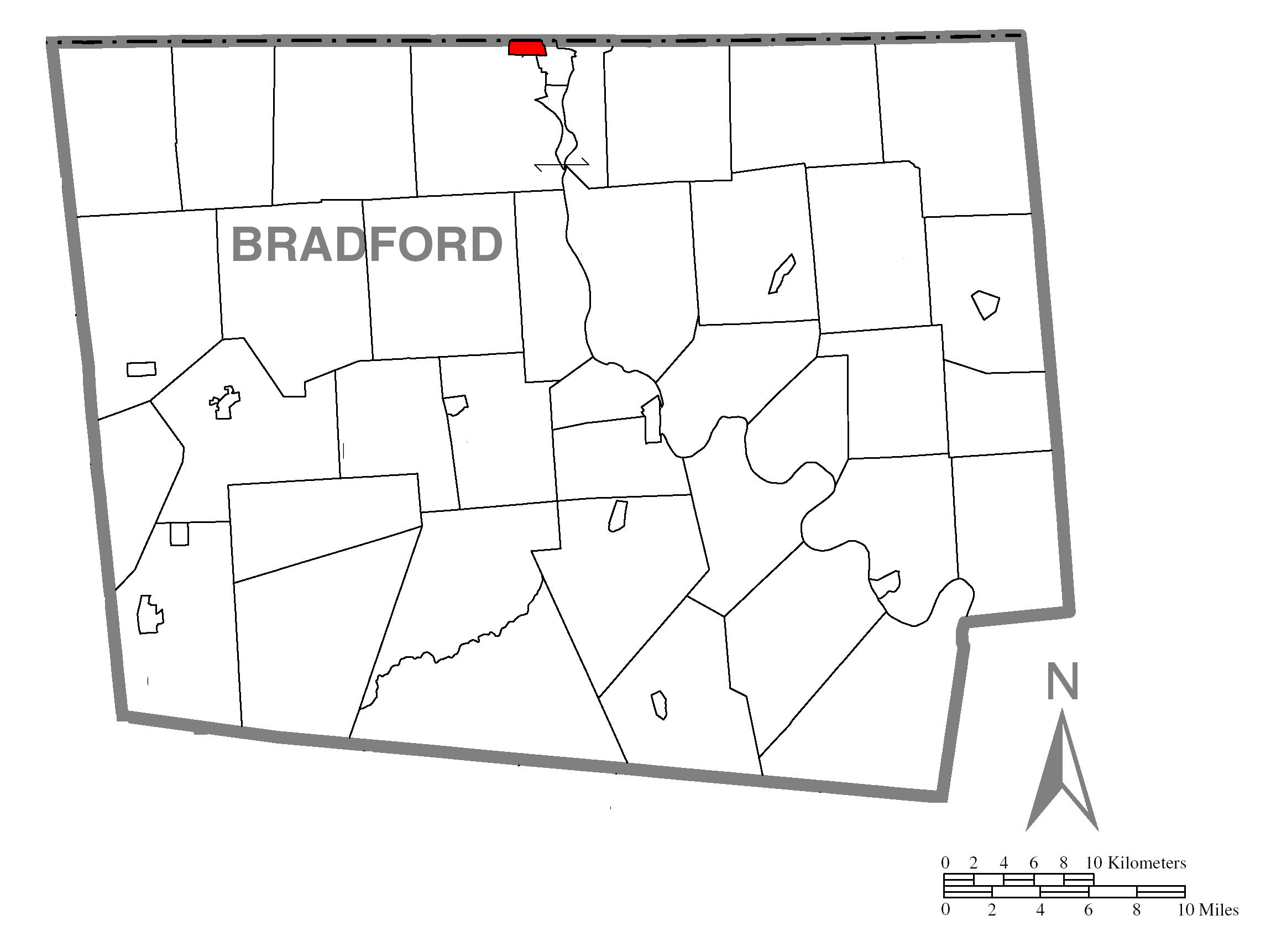 A map of Bradford County showing South Waverly, Pennsylvania (alternate) highlighted on the map.